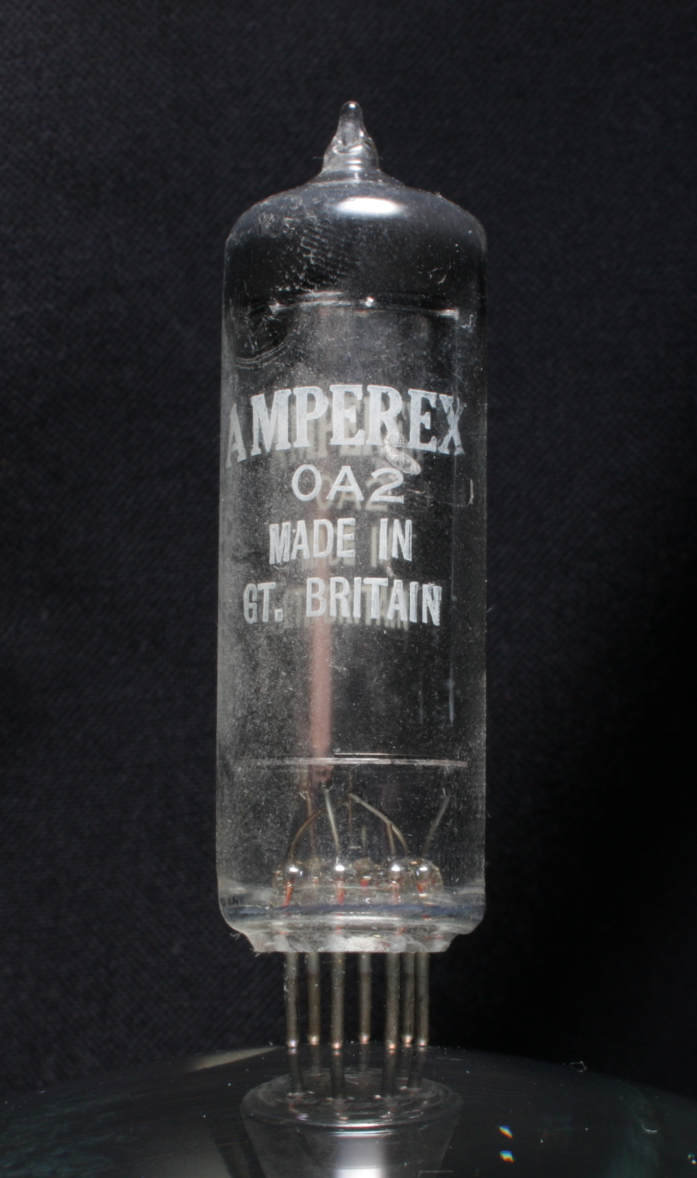 Amperex OA2 Gas-filled, glow-discharge voltage regulator tube